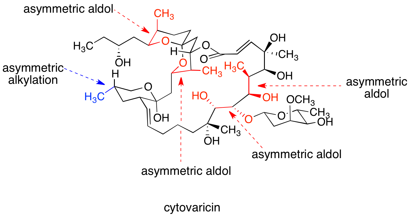 Chemdraw